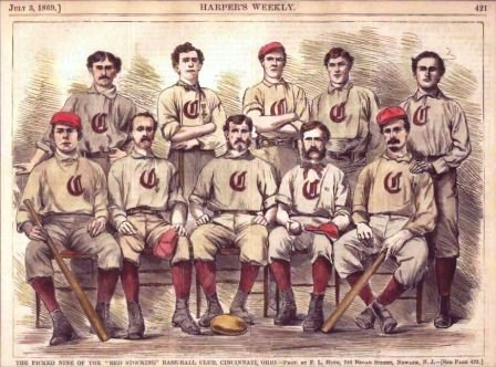 The Cincinnati Red Stockings were the first professional team.